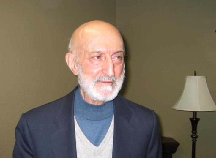 Ali Mohammad Izadi